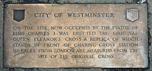 Mileages from London @Trafalgar Square (south side), London, England - 'On the site now occupied by the statue of King Charles I was erected the original Queen Eleanor's Cross, a replica of which stands in front of Charing Cross Station. Mileages from London are measured from the site of the original cross.'